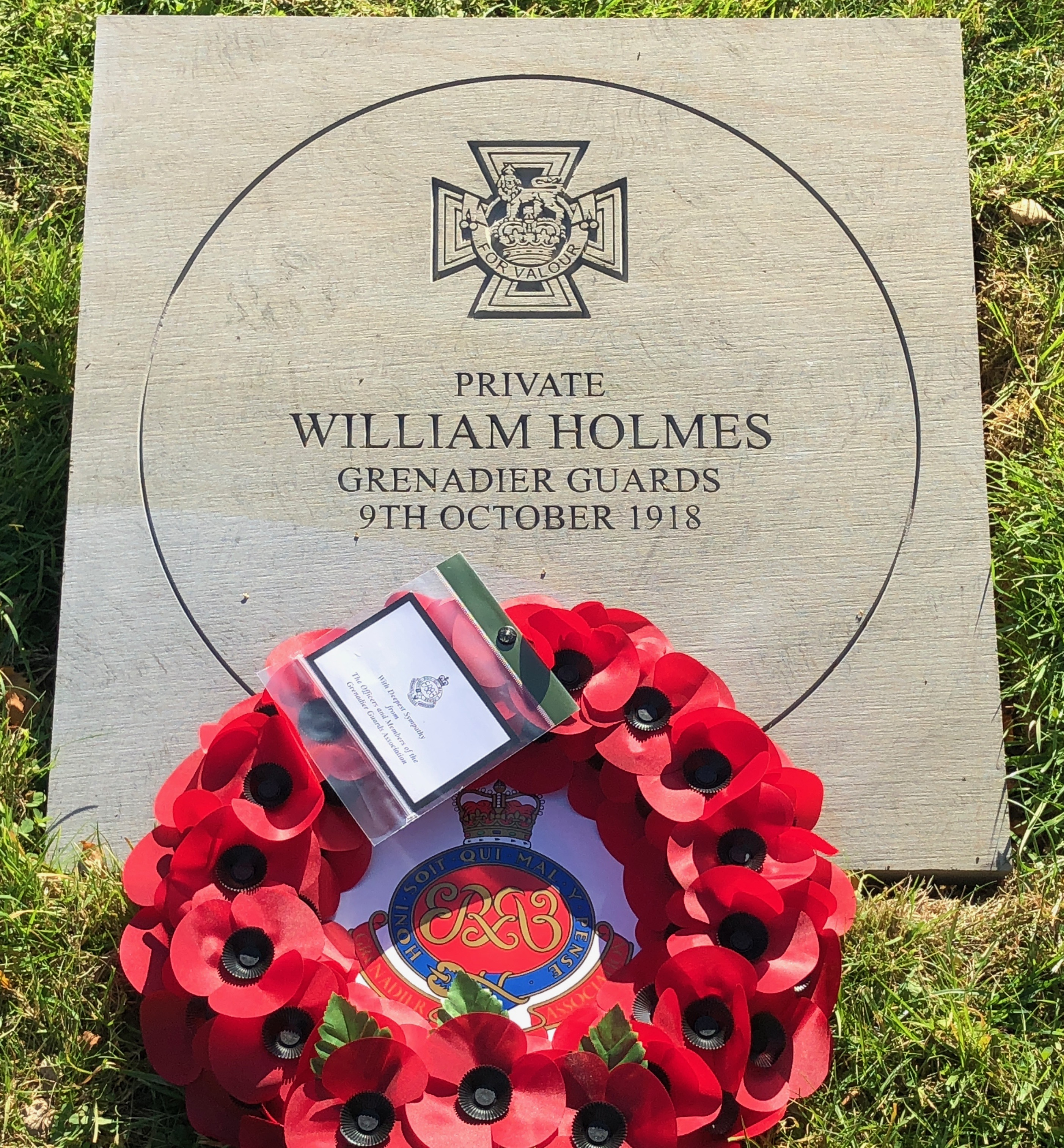 William Edgar Holmes VC Stone